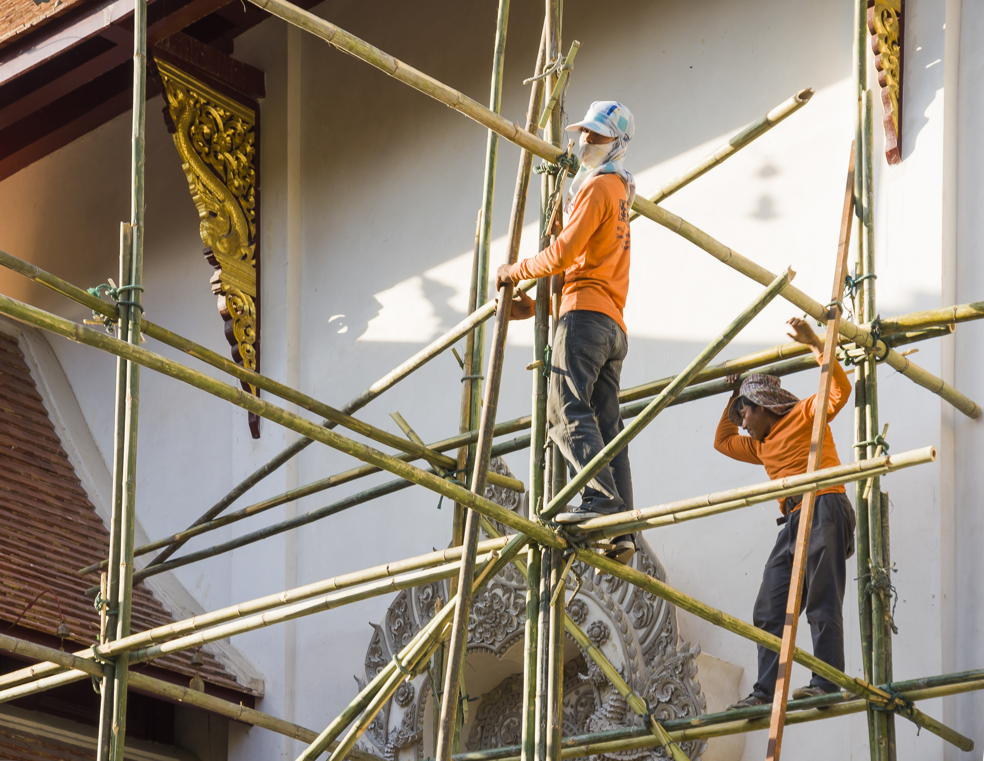 Chiang Mai, Thailand: Workers on a bamboo scaffolding during renovation work at Wat Saen Mueang Ma Luang buddhist temple